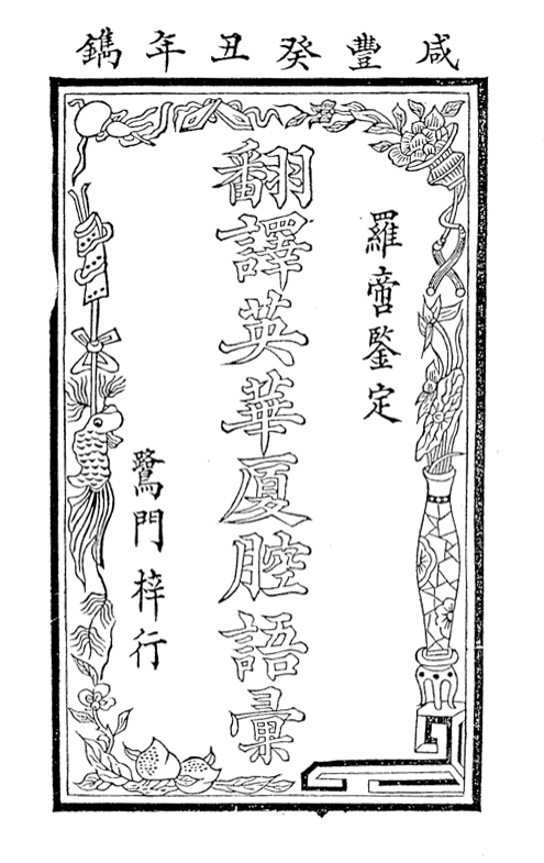 Frontispiece of Elihu Doty's 1853 work Anglo Chinese Manual of the Amoy Dialect, one of the earliest works in Pe̍h-ōe-jī.